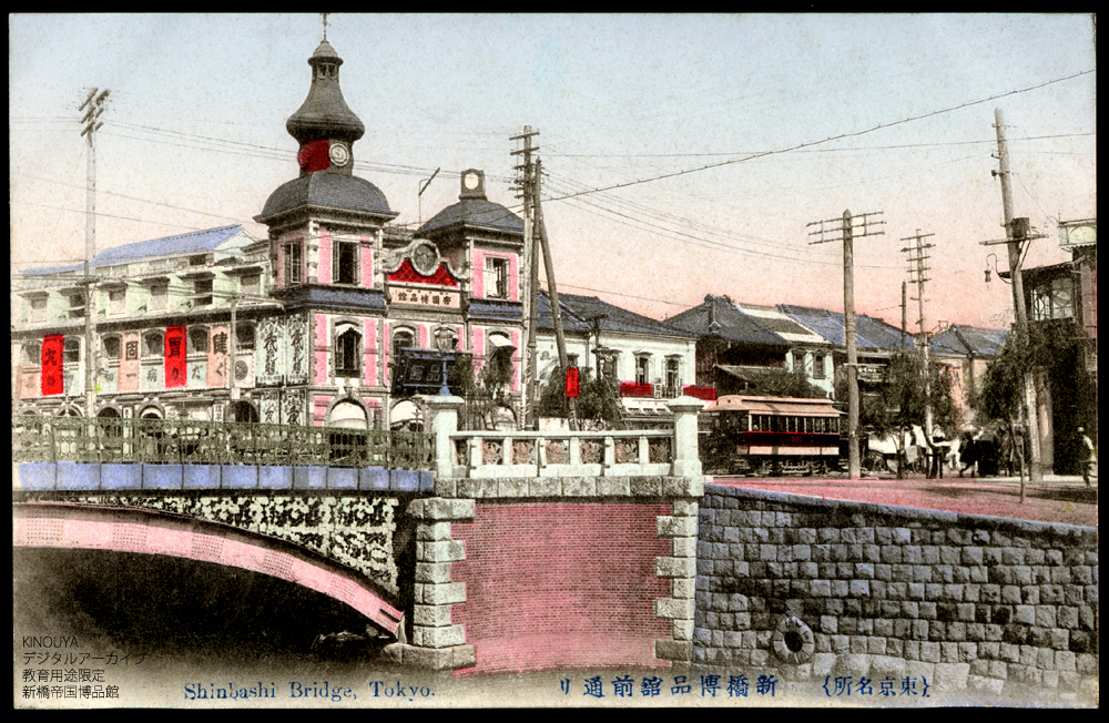 Japanese hand tinted view of Shinbashi, a bridge in Tokyo